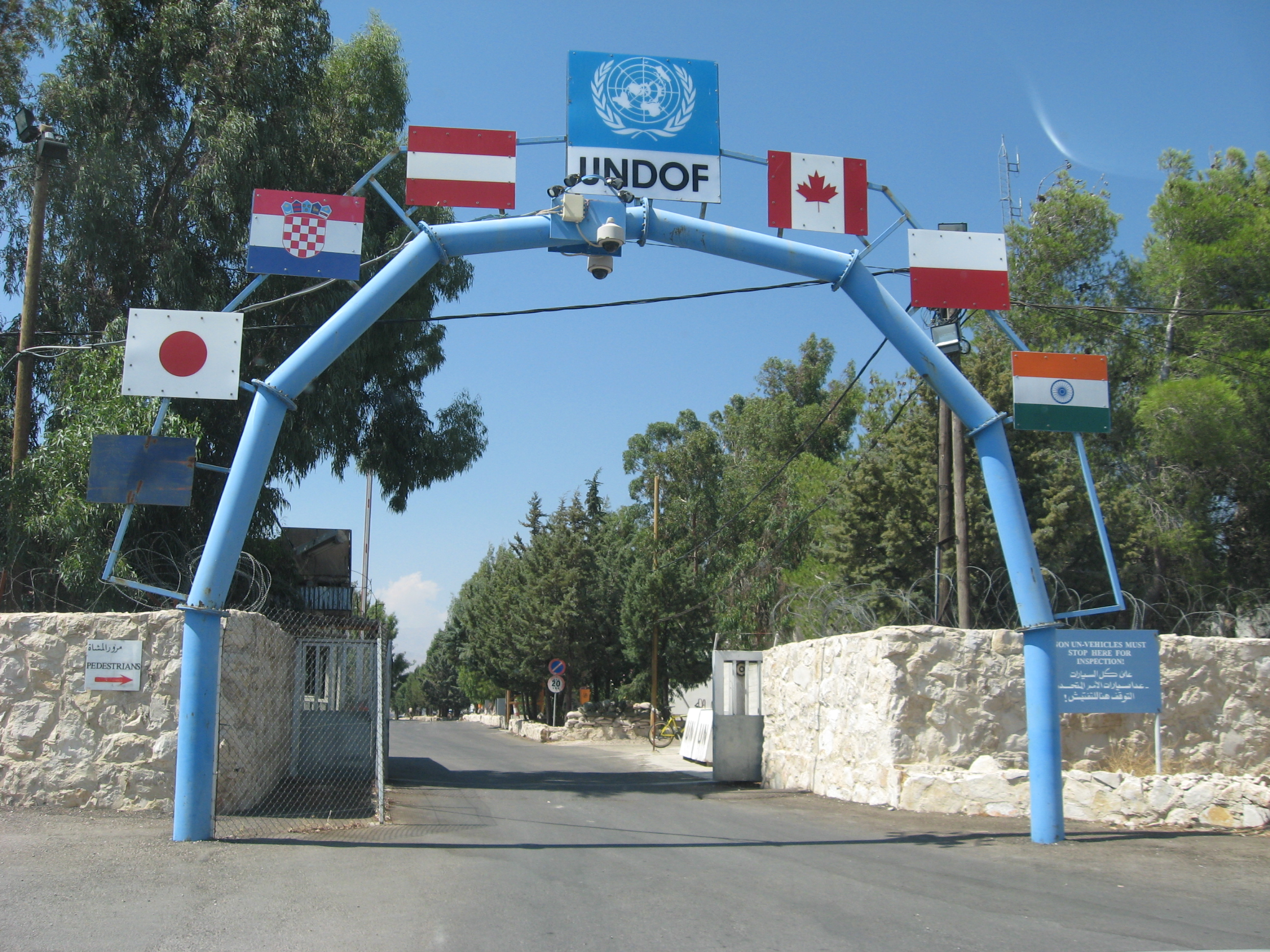 The main gate Camp Faouar (UNDOF) in Syria.